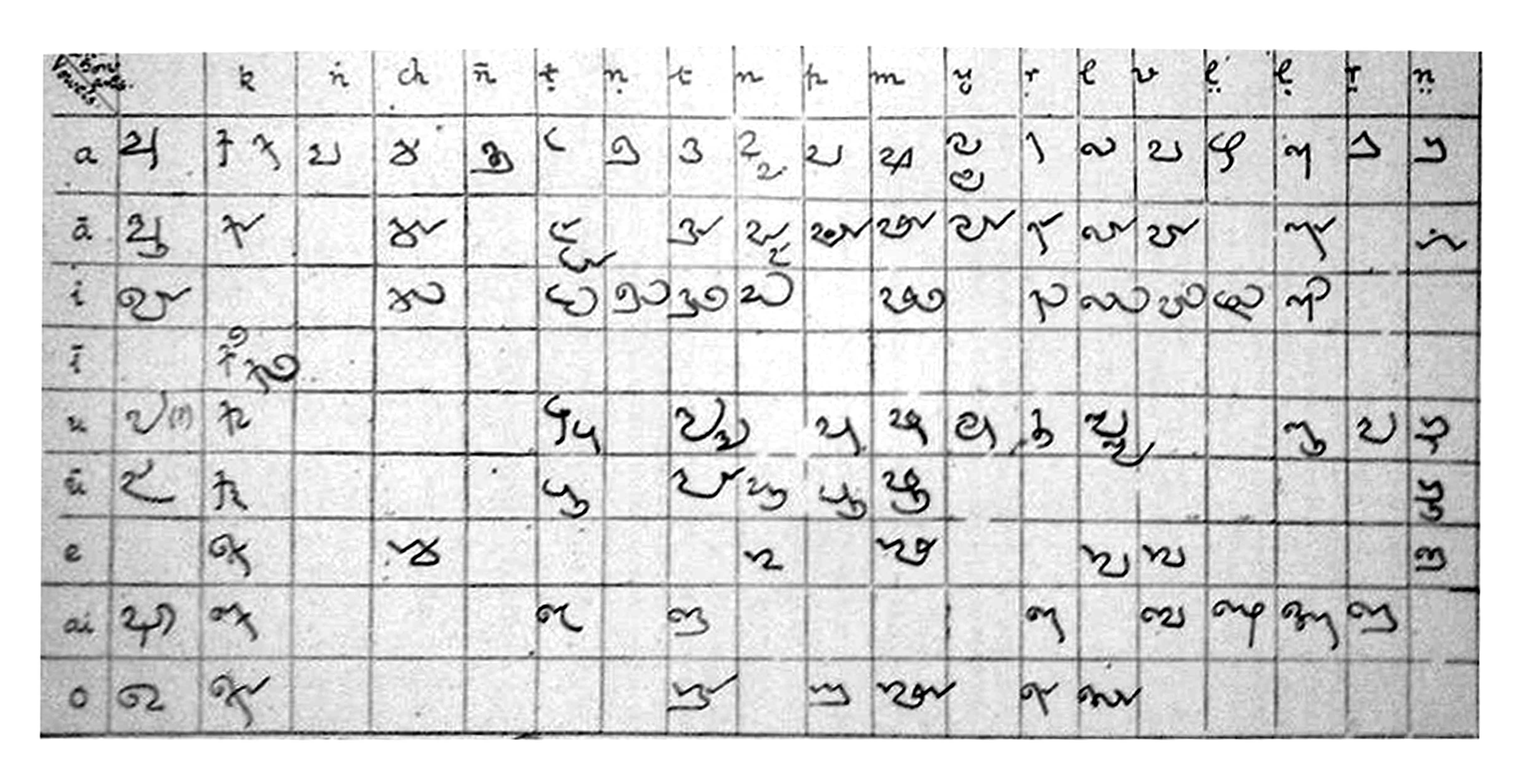 Vazhappally Plates